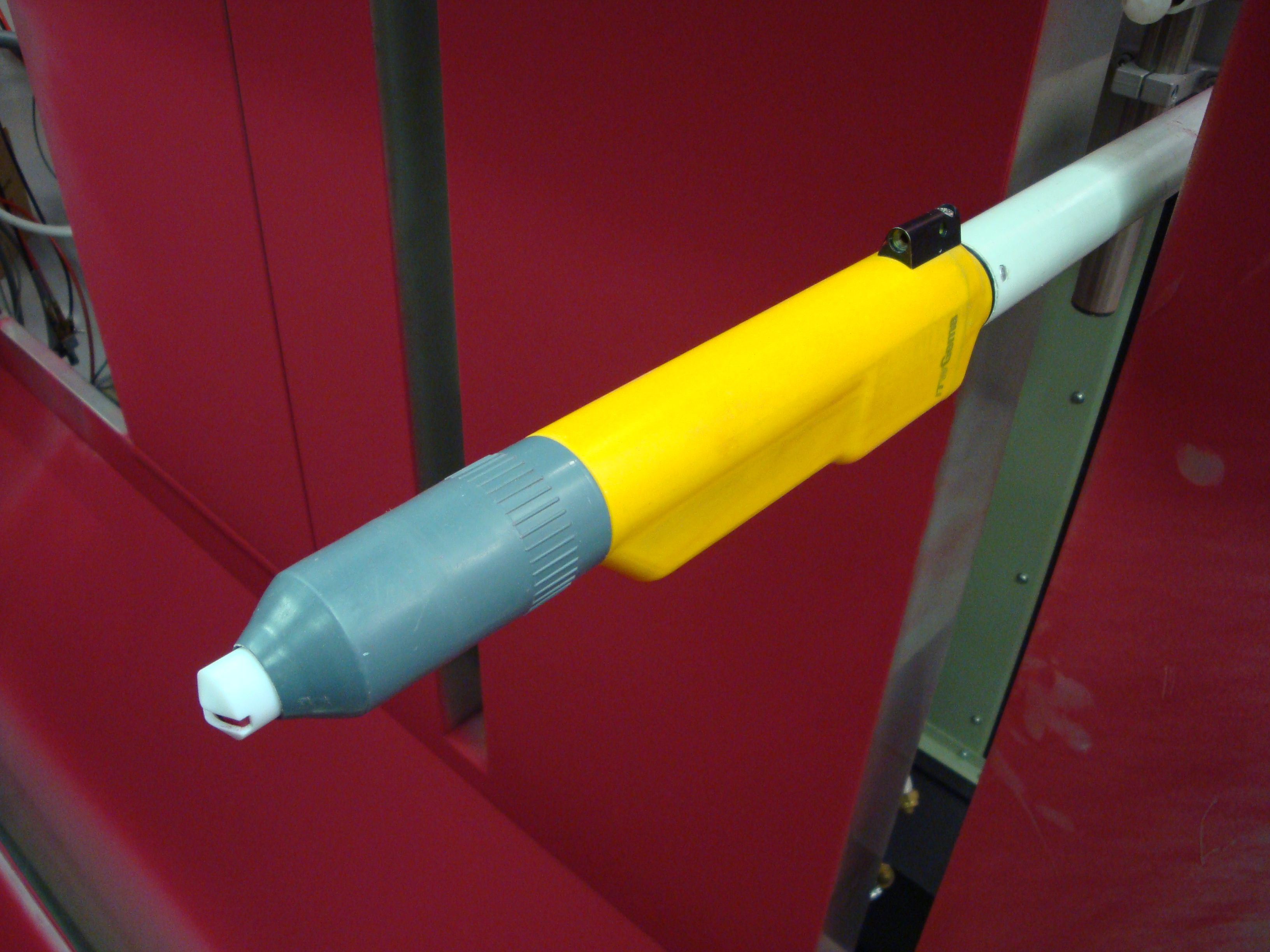 Powder spray gun